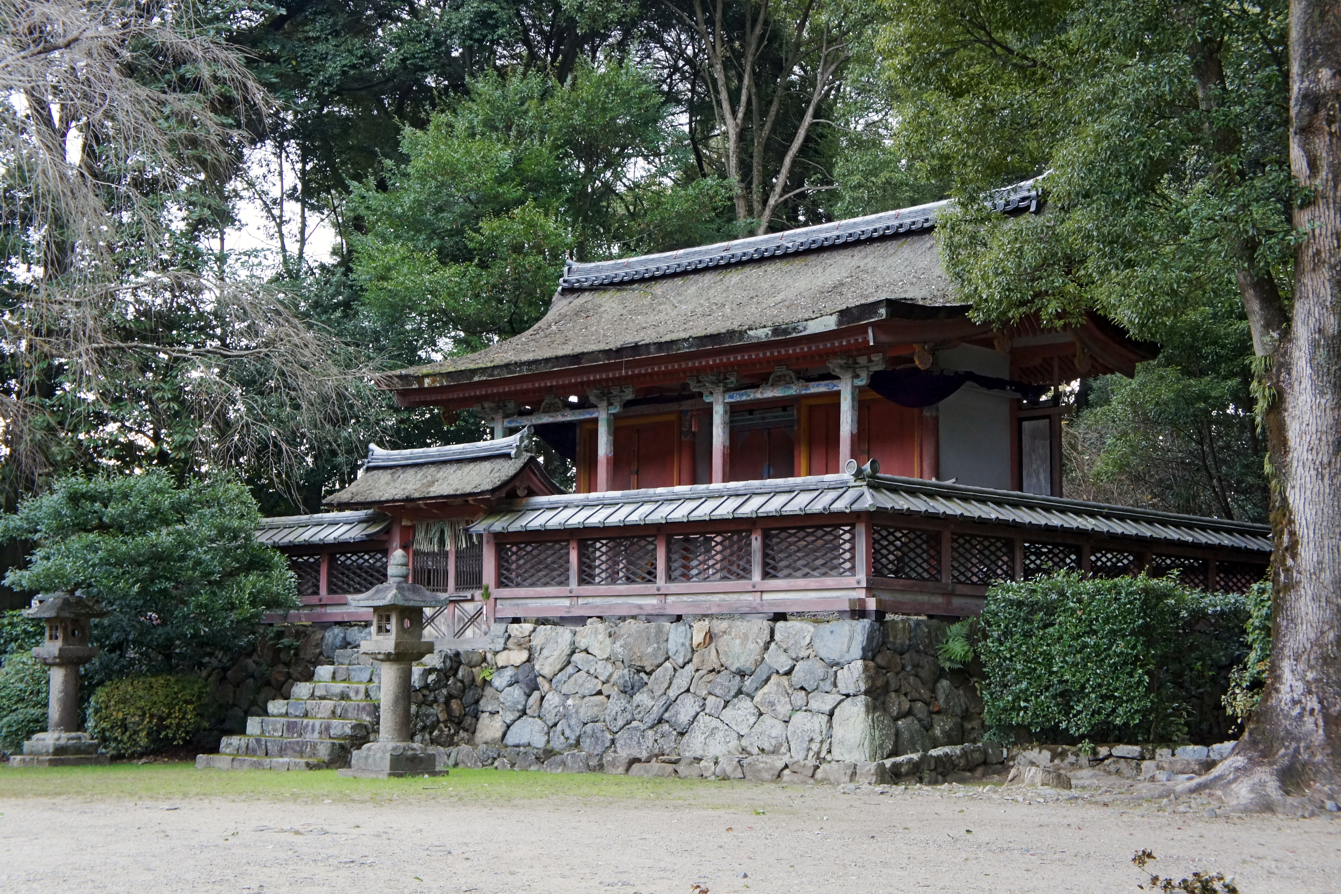 Daigo-ji's Kiyotakigu-honden in Fushimi-ku, Kyoto, Kyoto Prefecture, Japan. Daigo-ji was registered as part of the UNESCO World Heritage Site "Historic monuments of ancient Kyoto".